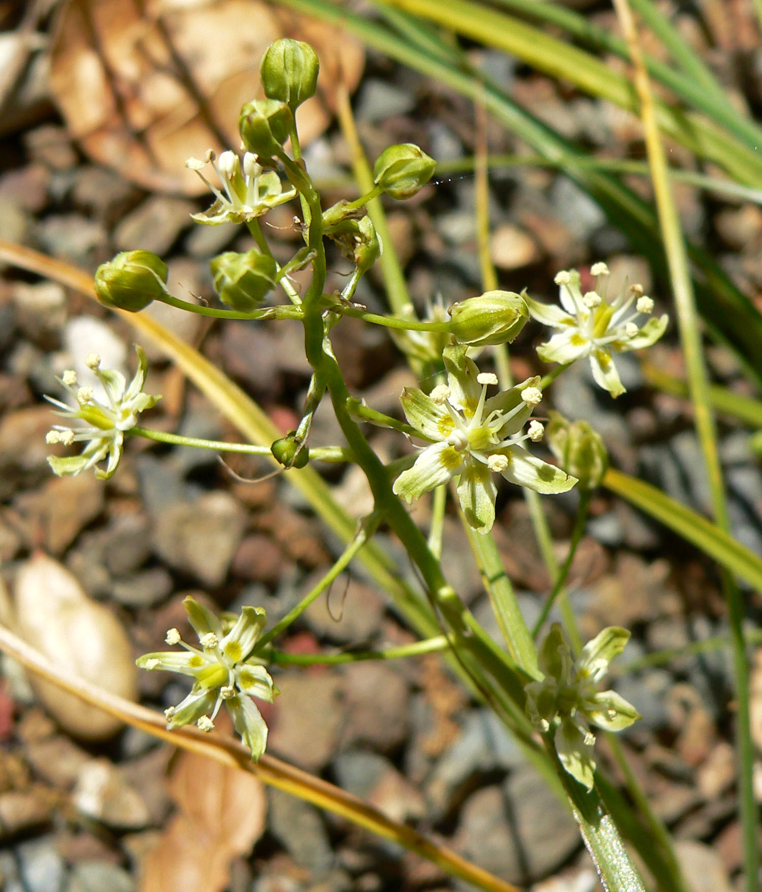 Toxicoscordion micranthum (syn. Zigadenus micranthus) at the University of California Botanical Garden, Berkeley, California